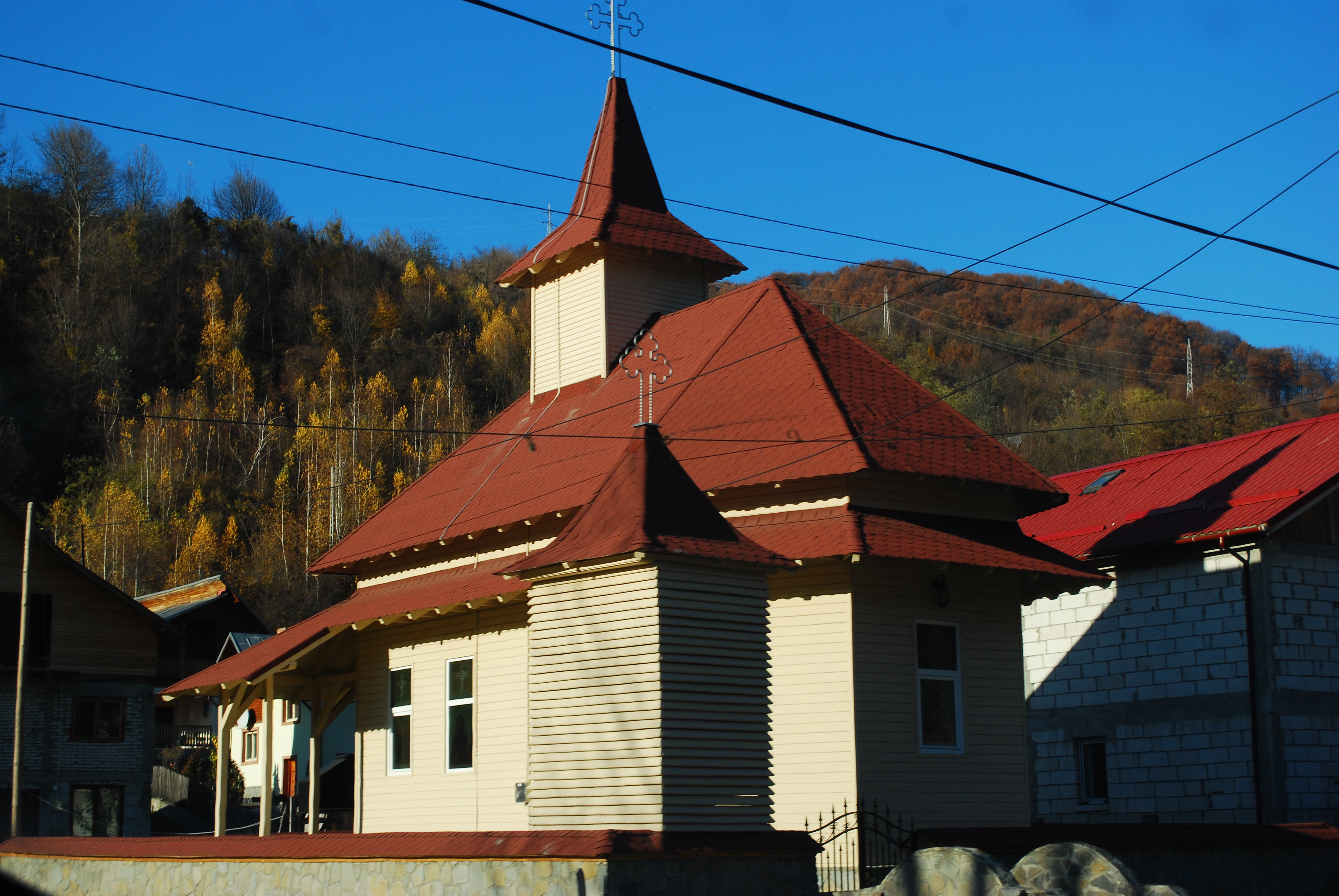 Church in Seciuri, Şotrile commune, Prahova County, Romania